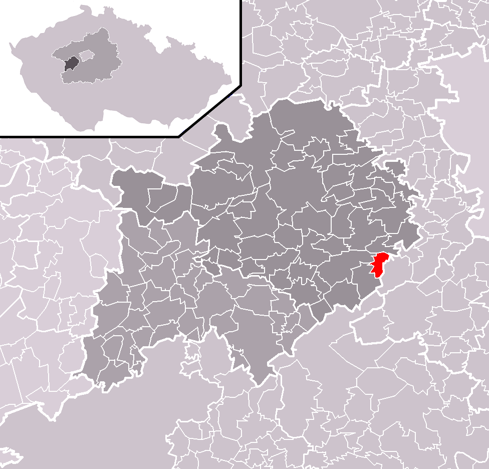 Location of Zadní Třebaň municipality within Beroun District and administrative area of Beroun as a Municipality with Extended Competence.